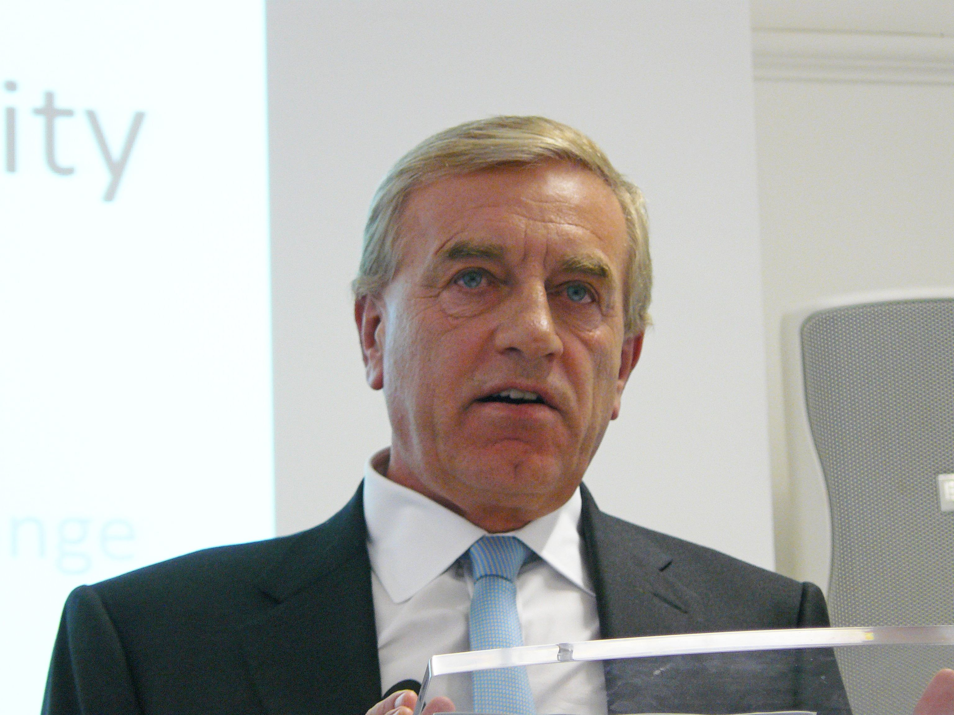 Sir Peter Lampl speaking on Social Mobility and Education at Policy Exchange